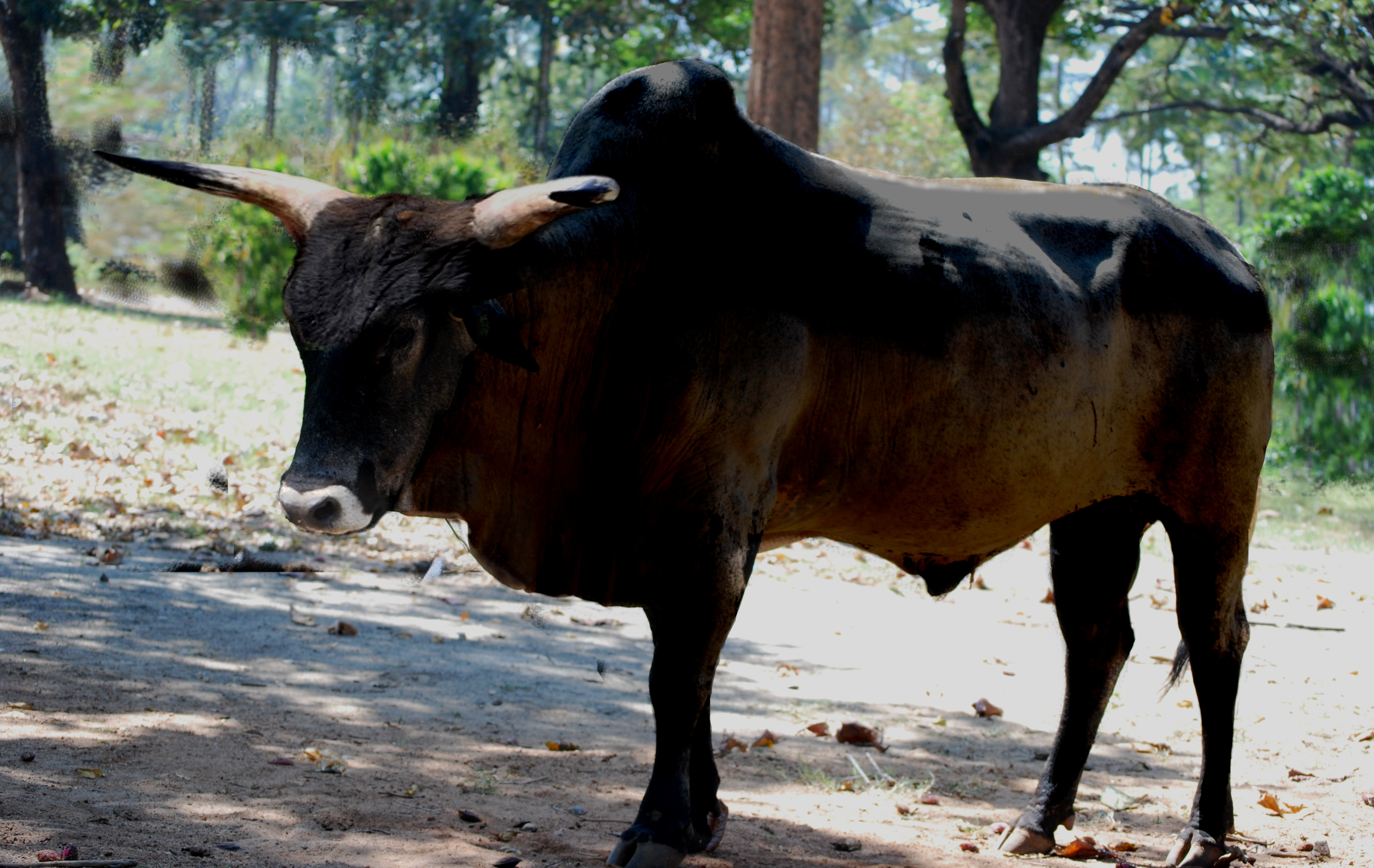 Live reconstruction of an Indian aurochs (Bos (primigenius) namadicus). Transformed image based on: Image of a zebu uploaded by author Krish9 image of a taurus cattle bull uploaded by author DFoidl Horn shape based on: Raphael Pumpelly: Explorations in Turkestan : Expedition of 1904 : vol.2, p. 361 (online link to Bos namadicus skull)